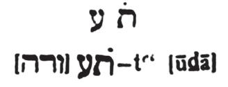 A Hebrew inscription on a bronze seal from Georgia